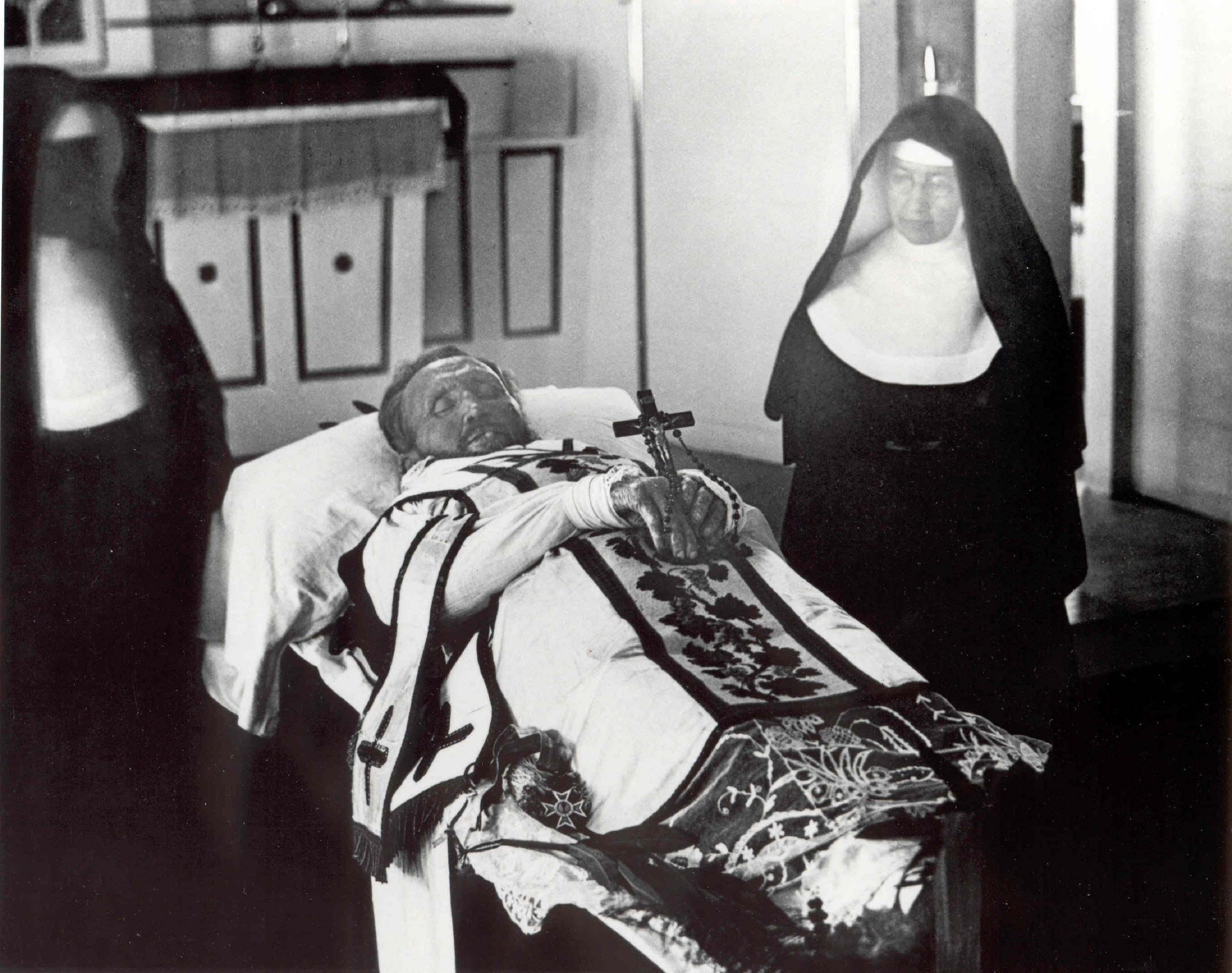 Father Damien on funeral bier with Mother Marianne Cope and Sister Leopoldina Burns by his side on Monday April 15, 1889, the day of his death. Presumably photographed by Dr. Sydney B. Swift.